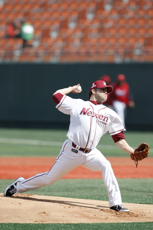 Spring Training 2012